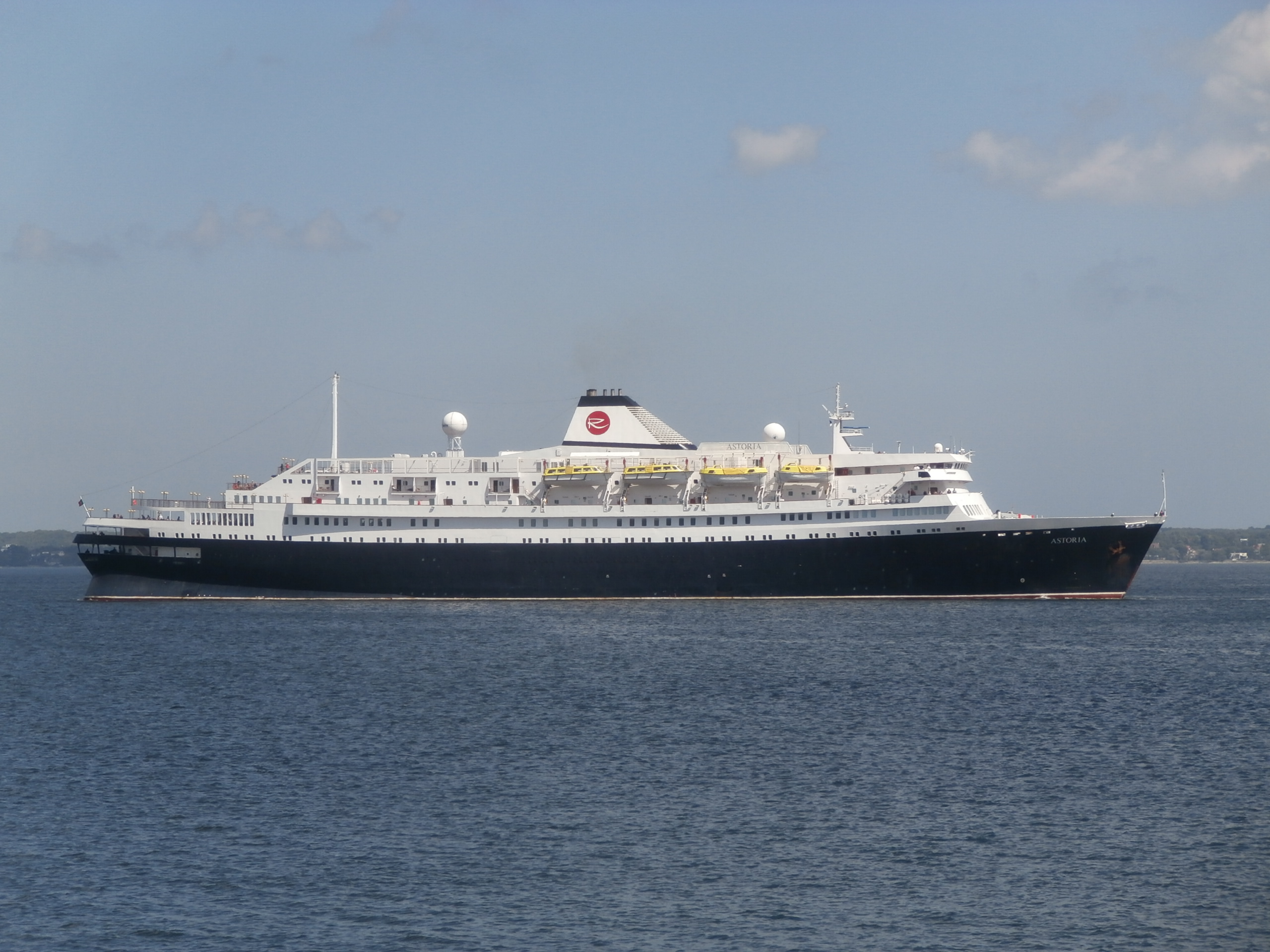 Astoria departing Tallinn 20 June 2016